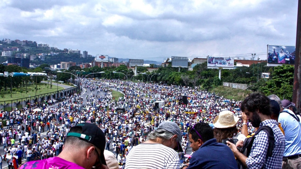 Venezuela protest 26 October 2016